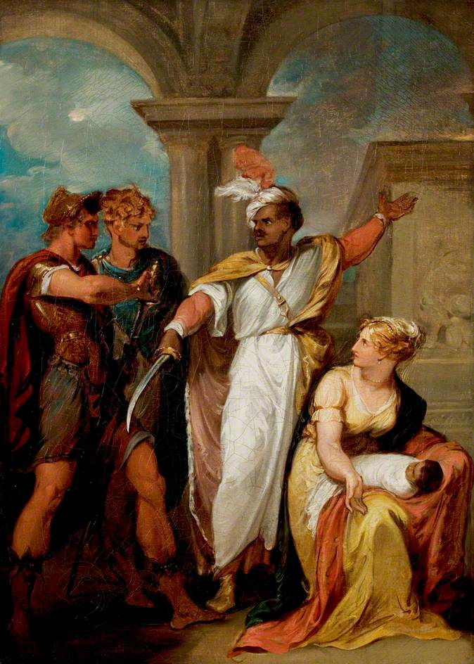 'Titus Andronicus', Act IV, Scene 2, Aaron the Moor, Demetrius and a Nurse and Child